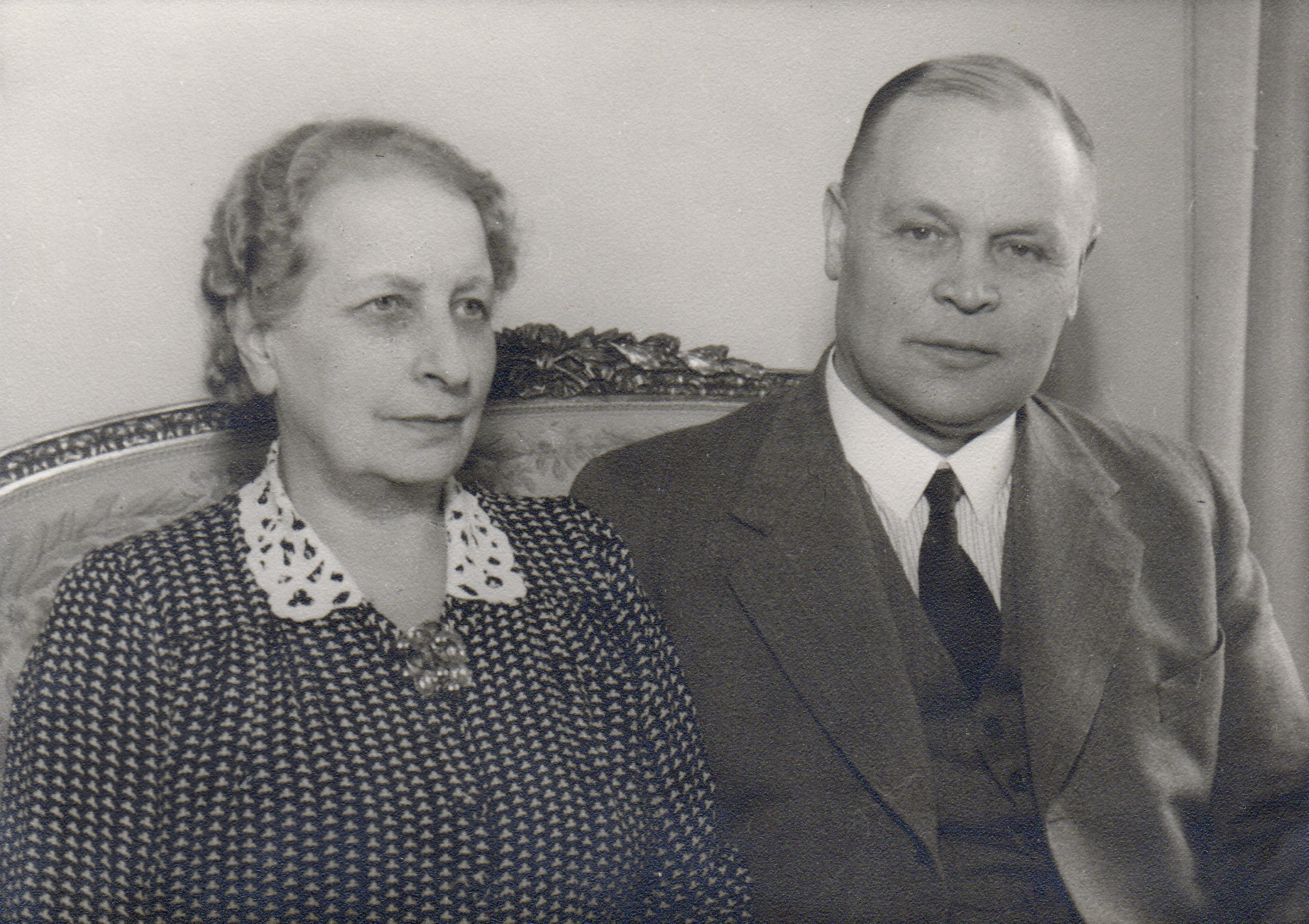 Jenny and Antti Wihuri